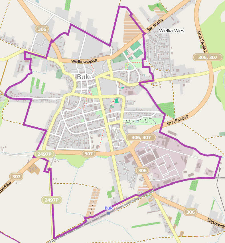 Map of Buk, Poland This map of Buk was created from OpenStreetMap project data, collected by the community. This map may be incomplete, and may contain errors. Don't rely solely on it for navigation. Border coordinates52.365416.5025←↕→16.540752.3403